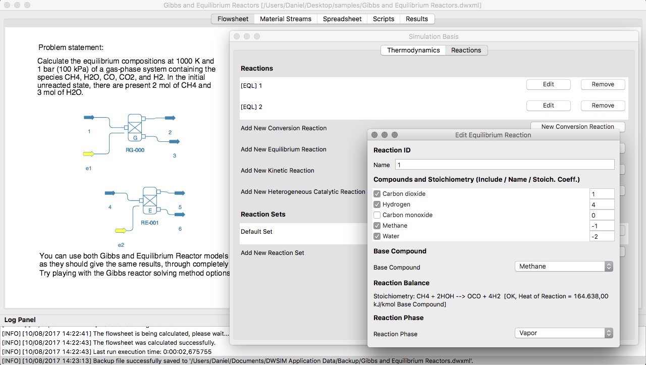 A screenshot of the cross-platform UI version of DWSIM 5.0 running on macOS.